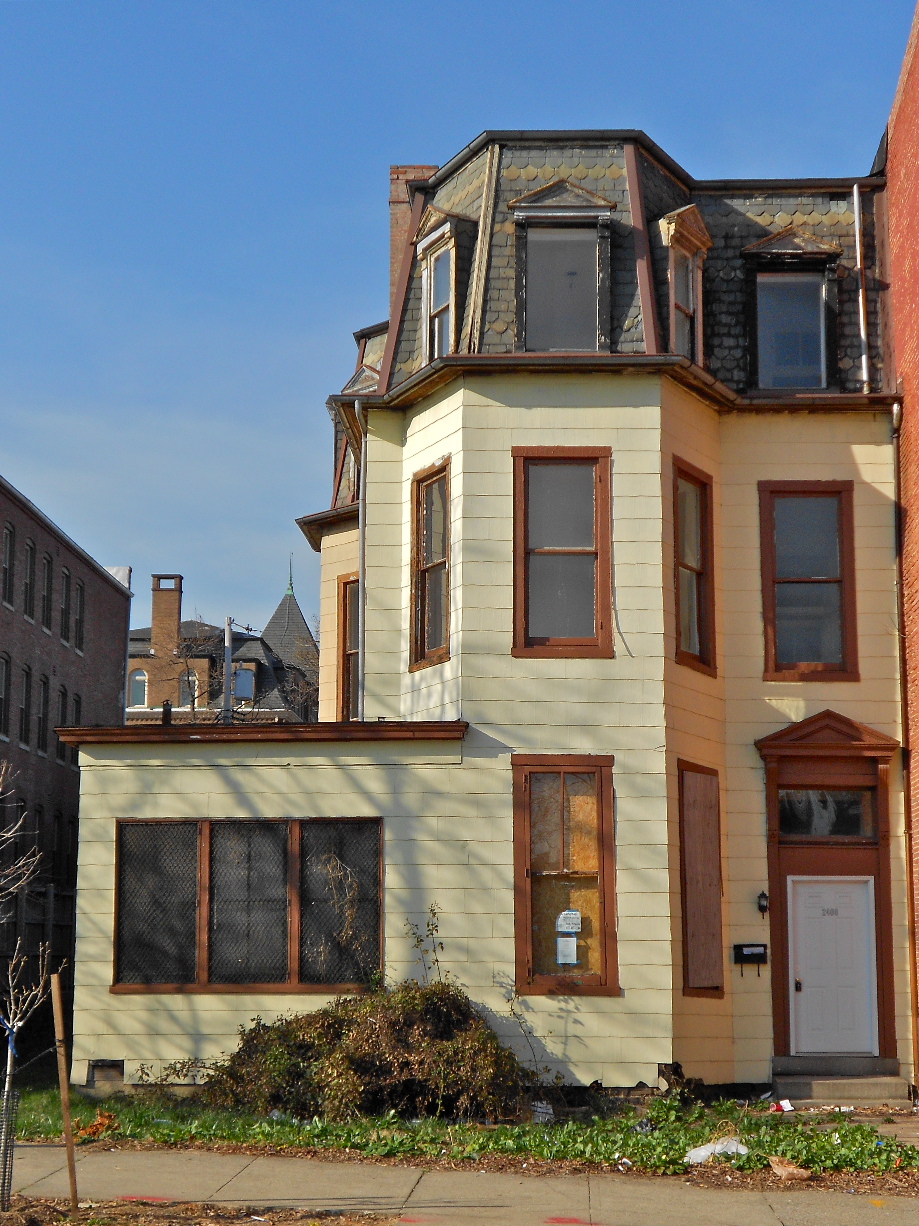 David Bachrach House on the NRHP since September 5, 1985. At 2406-2408 Linden Ave. in central area of Baltimore (near Druids Hill Park). Pretty nice neighborhood, but this building looks to be in bad shape. Gertrude Stein lived here briefly with her aunt Mrs. Bachrach.